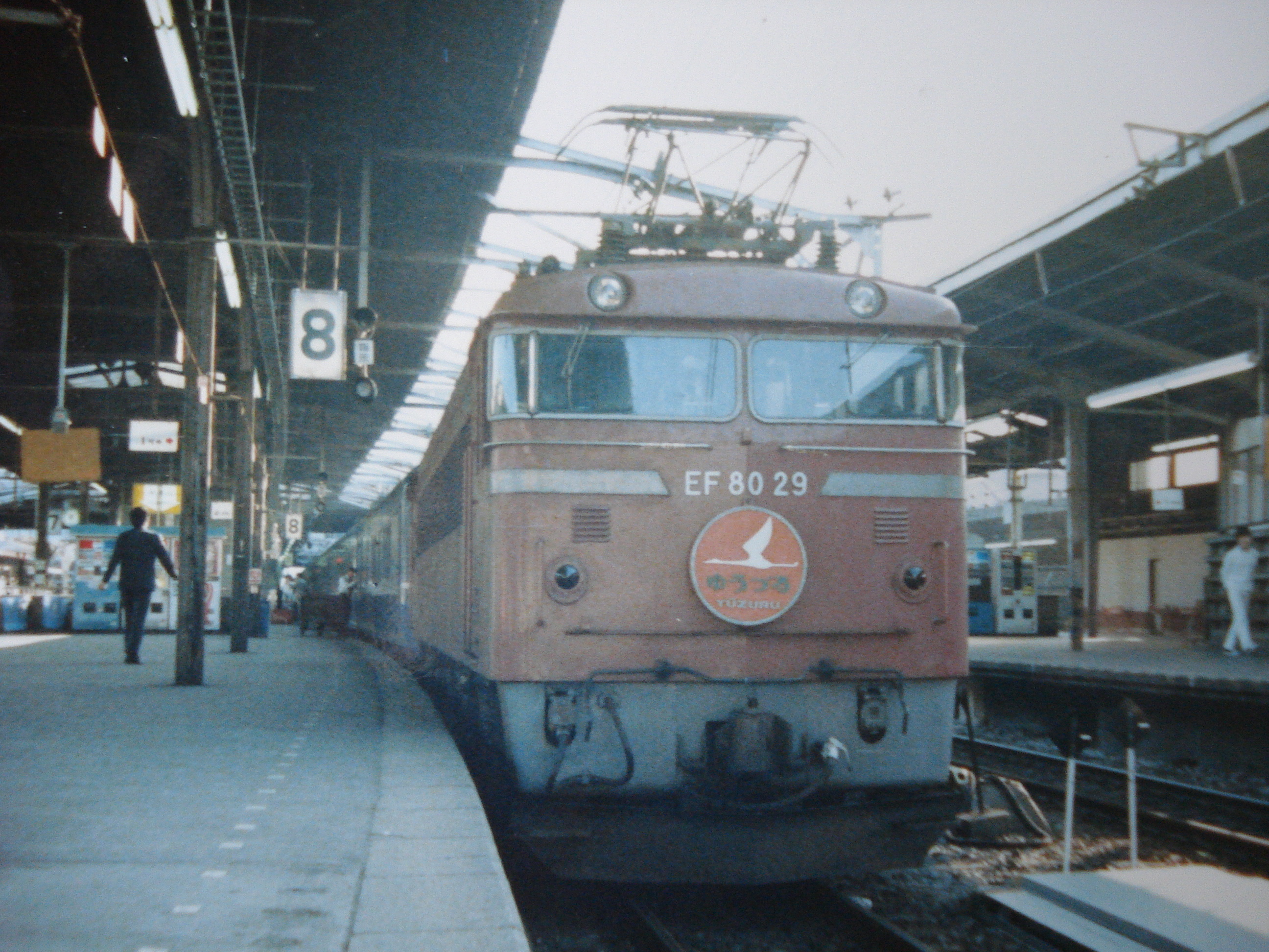 EF80 29 on a Yuzuru service